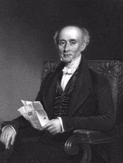 Portrait of Henry Forster Burder,(1783–1864) was English Congregationalist minister. From the Evangelical Magazine, January 1842.